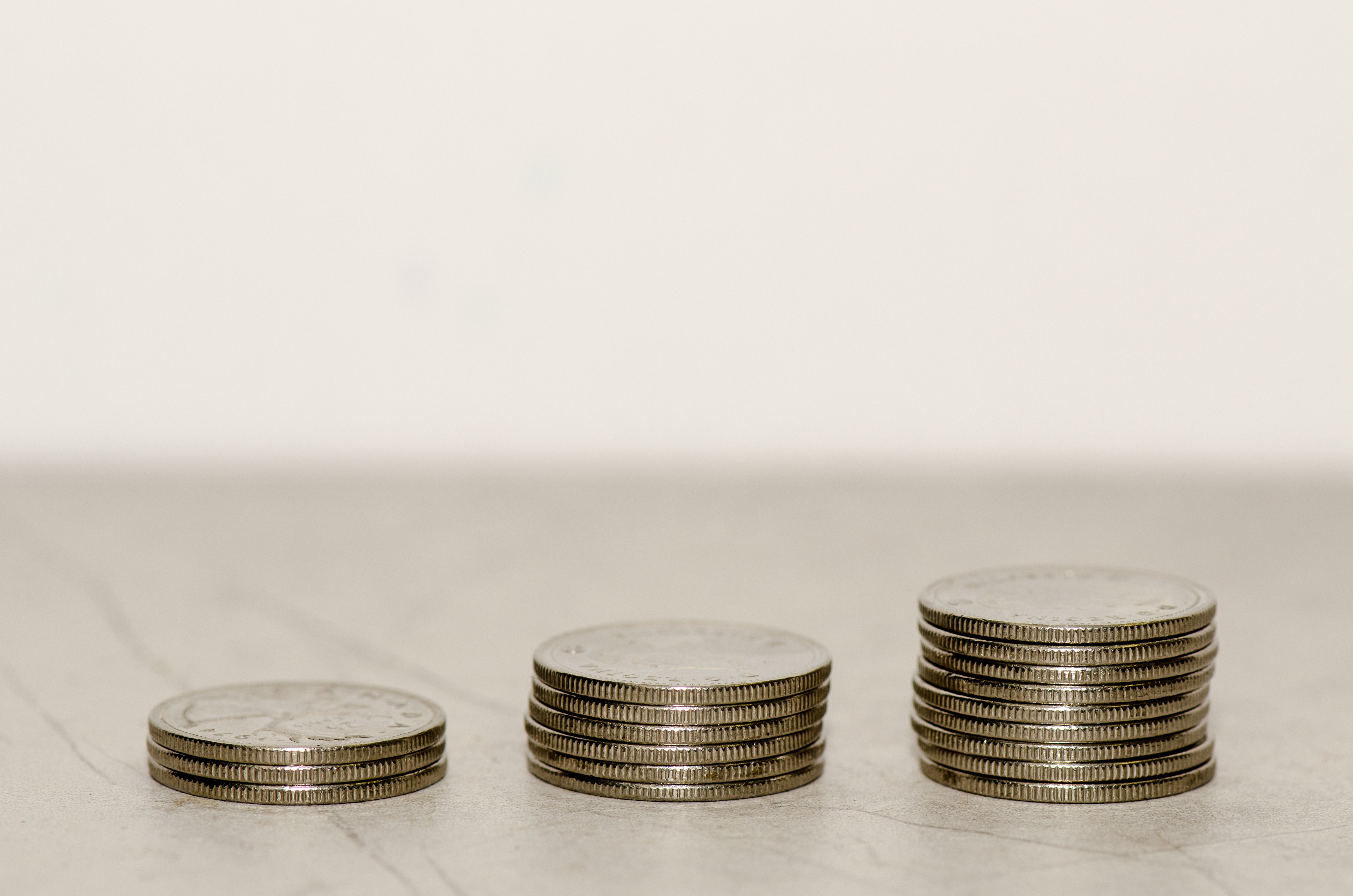 Instructed to make 10+ power point presentations with the theme of 'profitability', I found I didn't like most images I found on Google Image Search and we sure weren't paying shutterstock prices for a couple presentations! So I made my own.